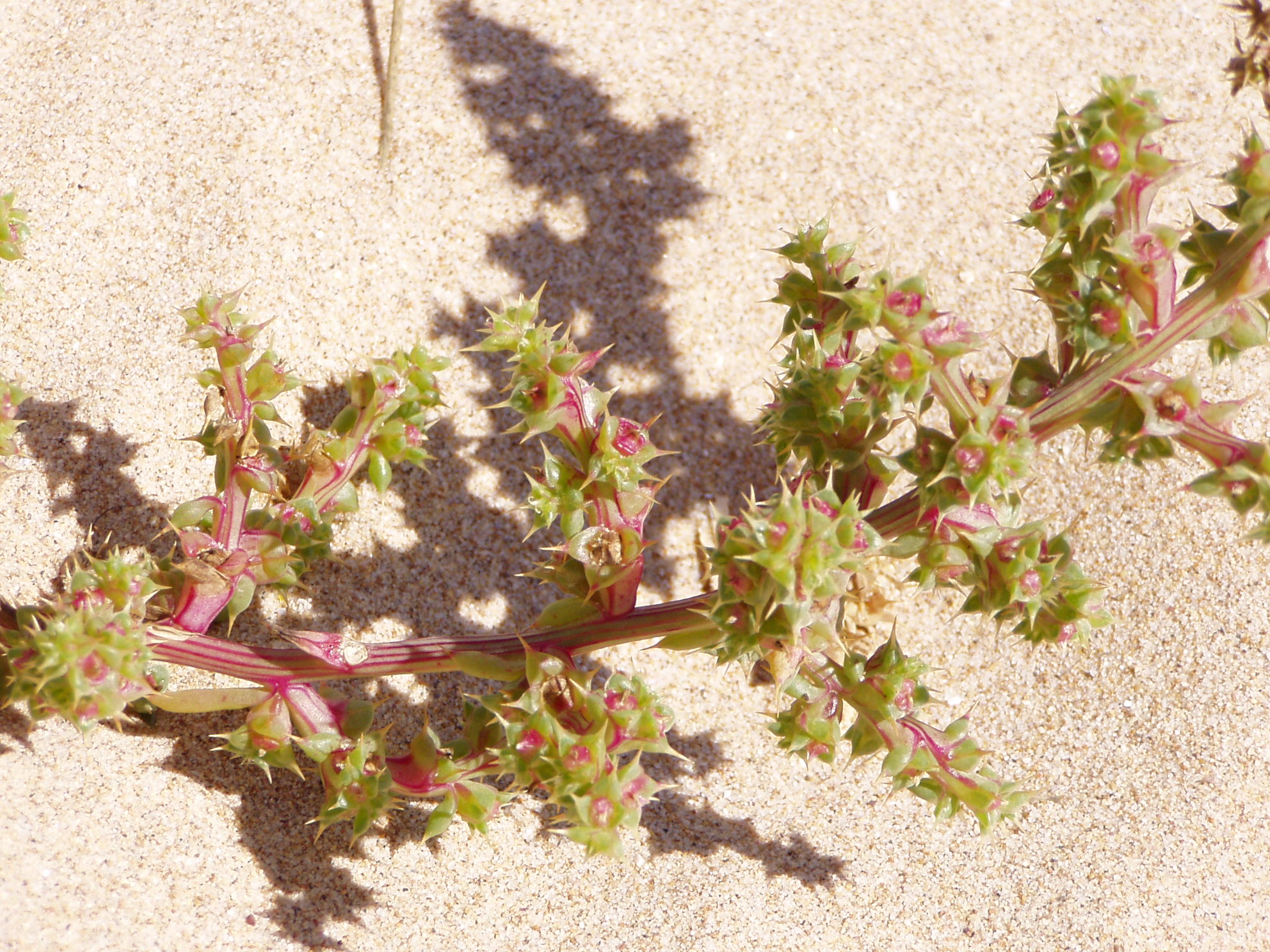 Prickly Saltwort, Russian Thistle. Flowers. Vila do Bispo, Portugal.